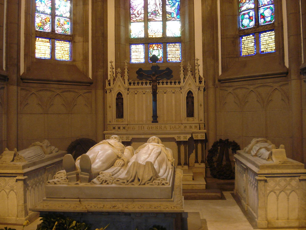 Center:Tomb of Pedro II of Brazil (1825-1891) and his wife Teresa Cristina of the Two Sicilies (1822-1889). Lateral gisants:Tombs of Princess Isabel of Brazil (1846-1921) and her husband Prince Gaston, Count of Eu (1842-1922)